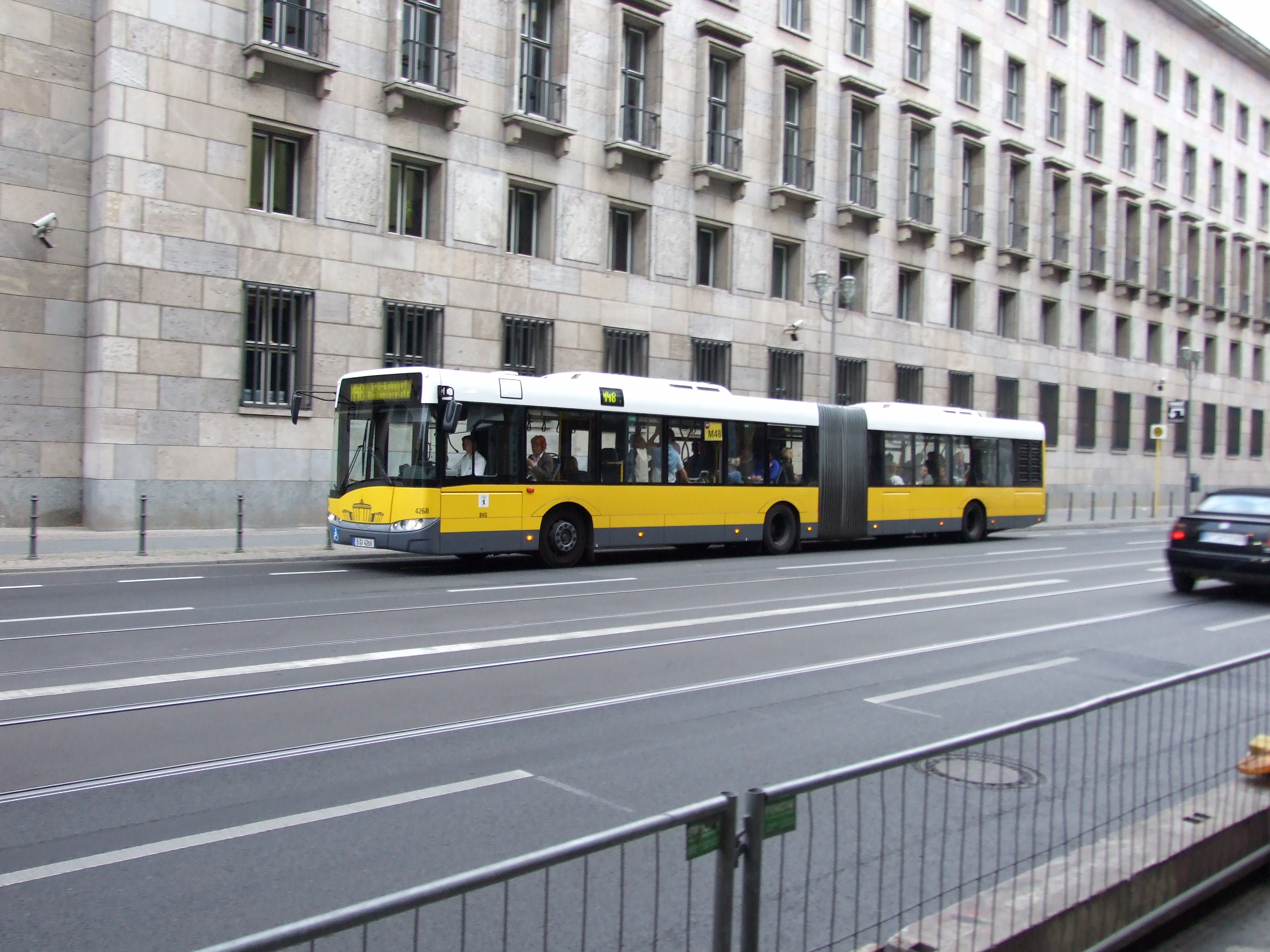 Berlin Solaris Urbino 18 bus (#4268) near Stadtmitte U-Bahn station and Leipzig square. Built 2007, BVG Berlin operator.help